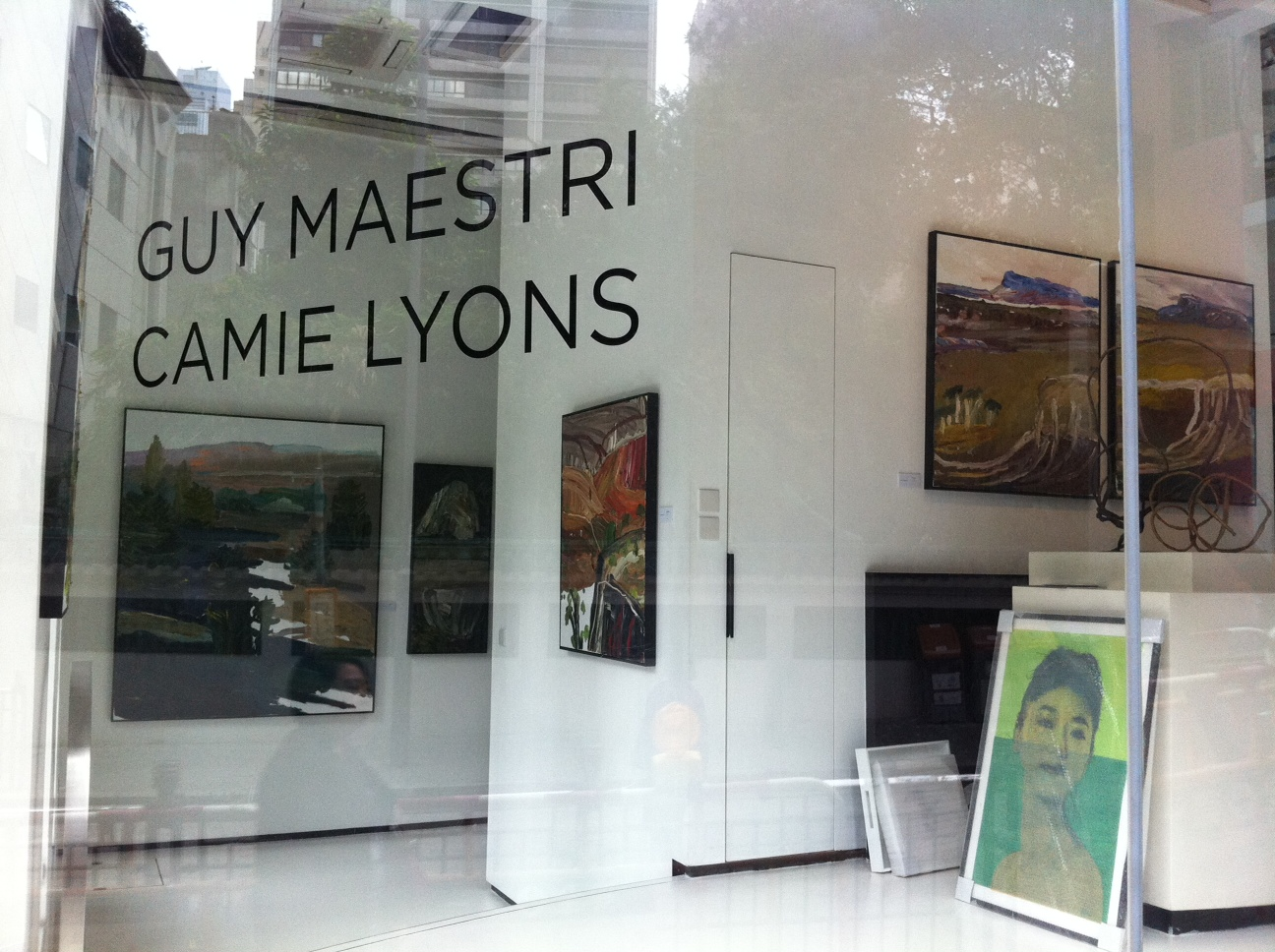 Guy Maestri, exhibition at Cat Street Gallery, Po Yan Street, 222 Hollywood Road, Sheung Wan, Hong Kong, 普仁街